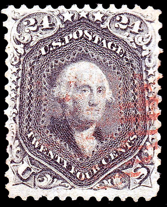 US Postage stamp, George Washington, issue of 1862, 24c, lilac gray.